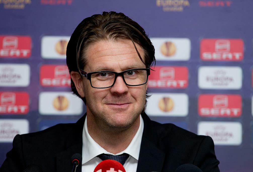 Rikard Norling, manager of Swedish football club Malmö FF